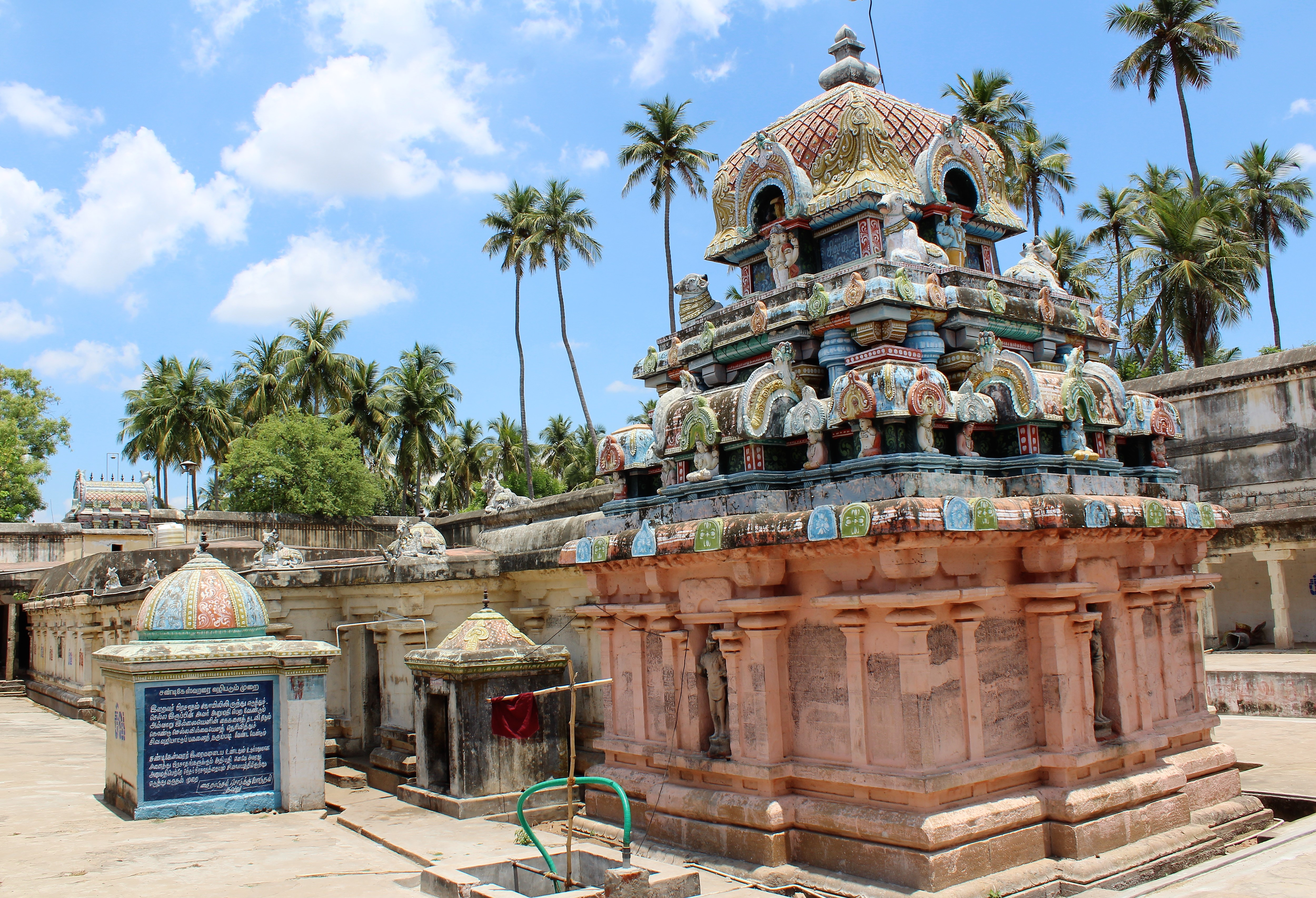 Odhavaneswarar temple, Thiruchotruthurai